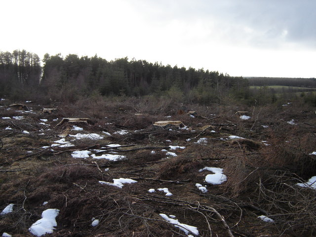 Forest area cut and cleared Section of Harwood Dale Forest recently cut and cleared